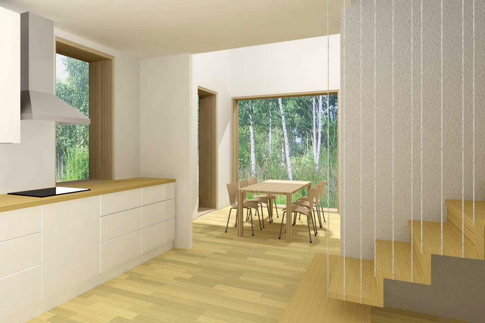 K3 Arkkityyppi, standardized low-energy one-family house design published by Finnish Cultural Foundation. Architect Kirsti Siven & Asko Takala arkkitehdit Oy.